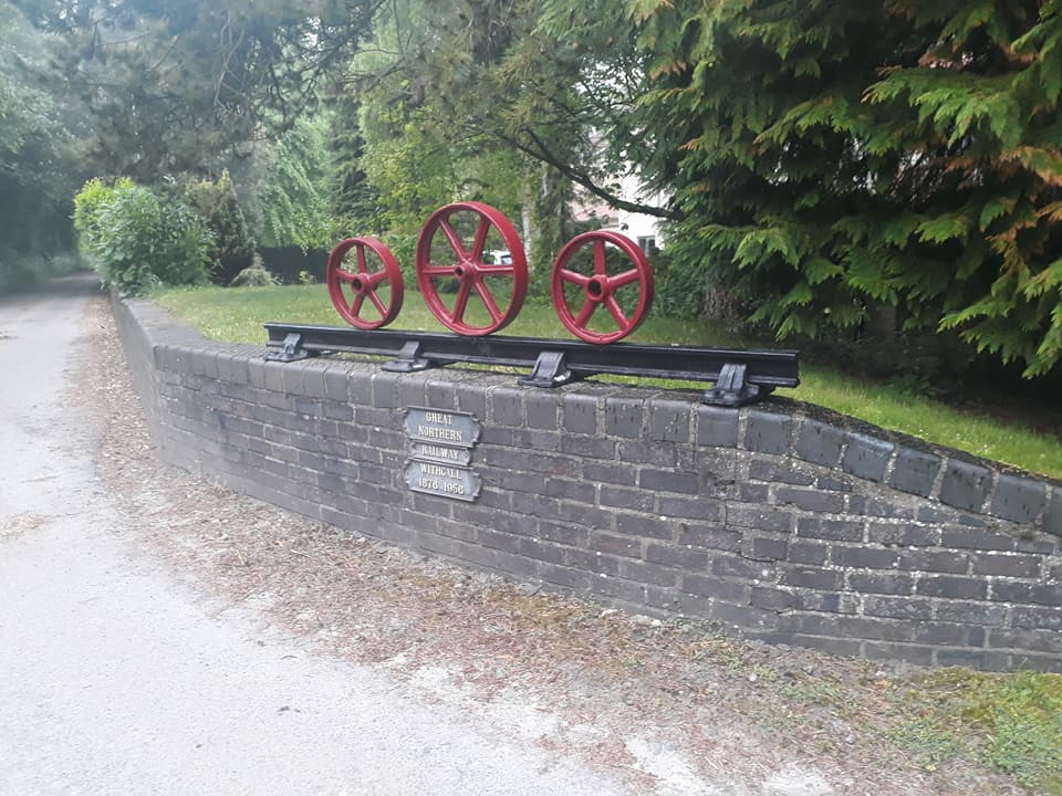 My own